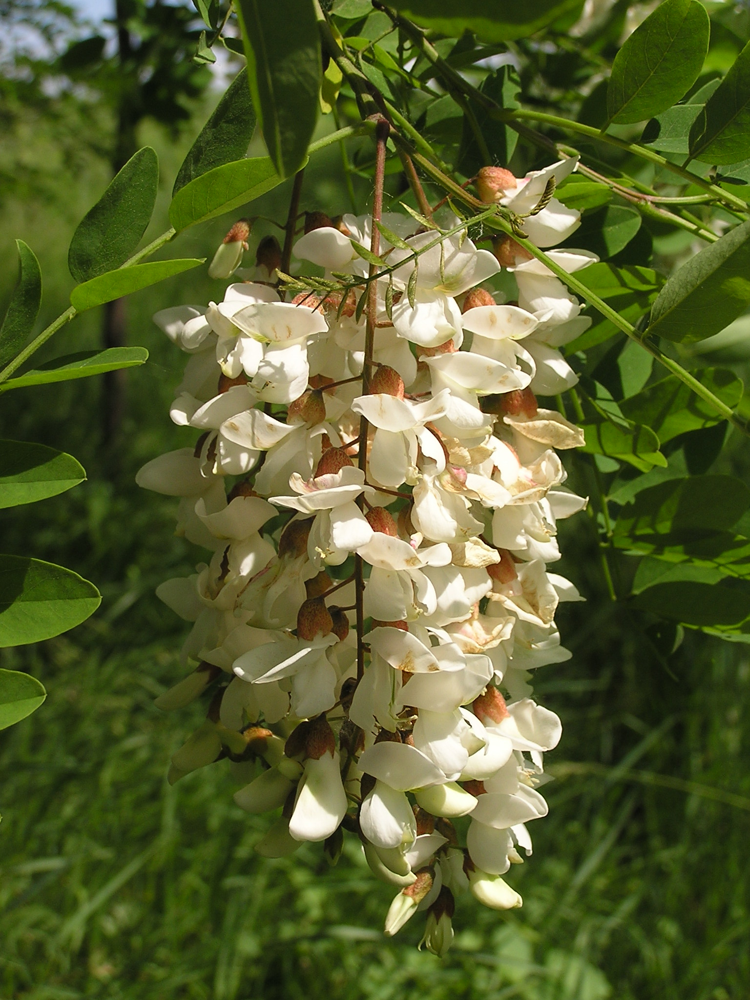 Flowers of Robinia pseudoacacia